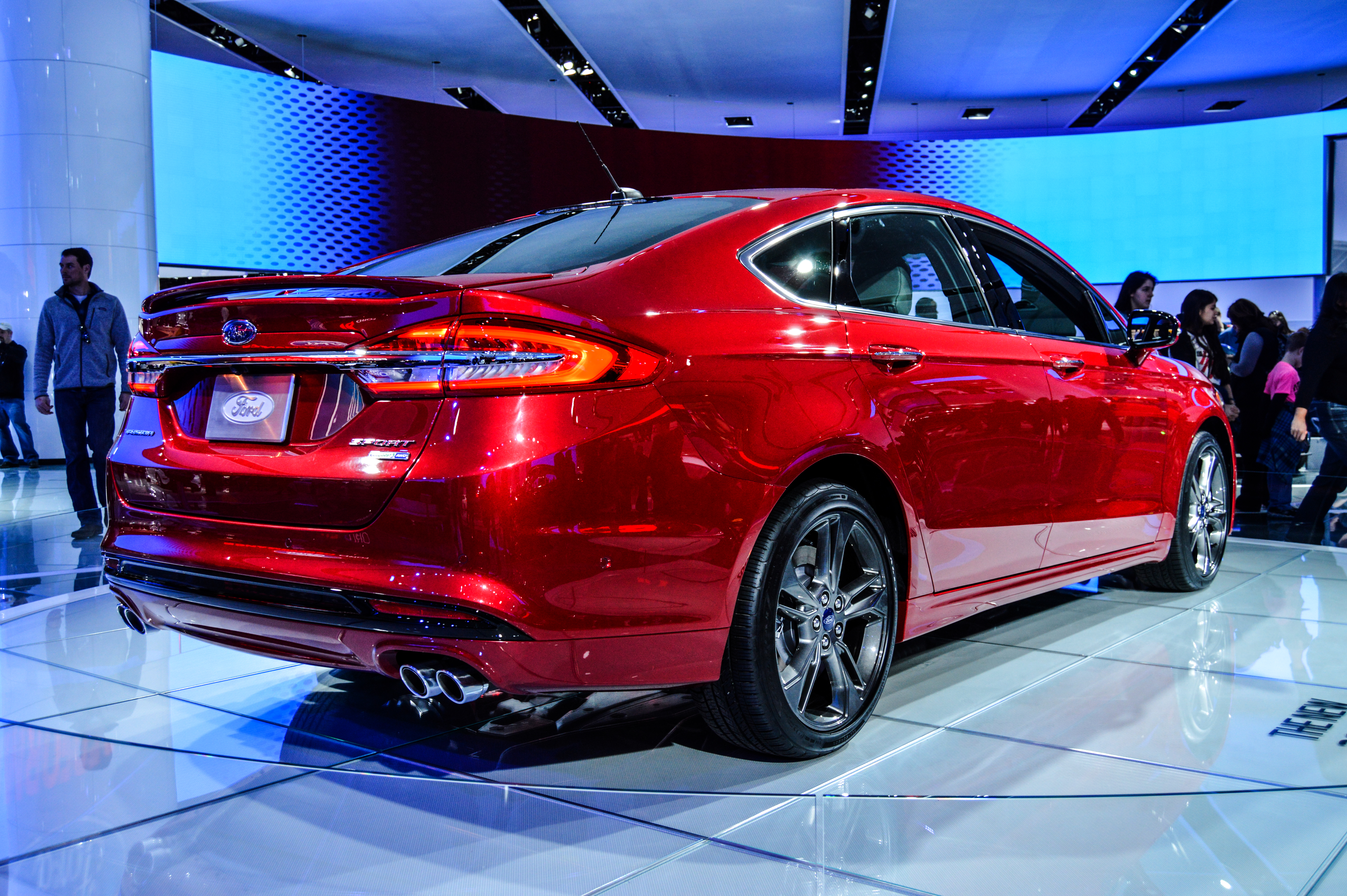 North American International Auto Show 2016